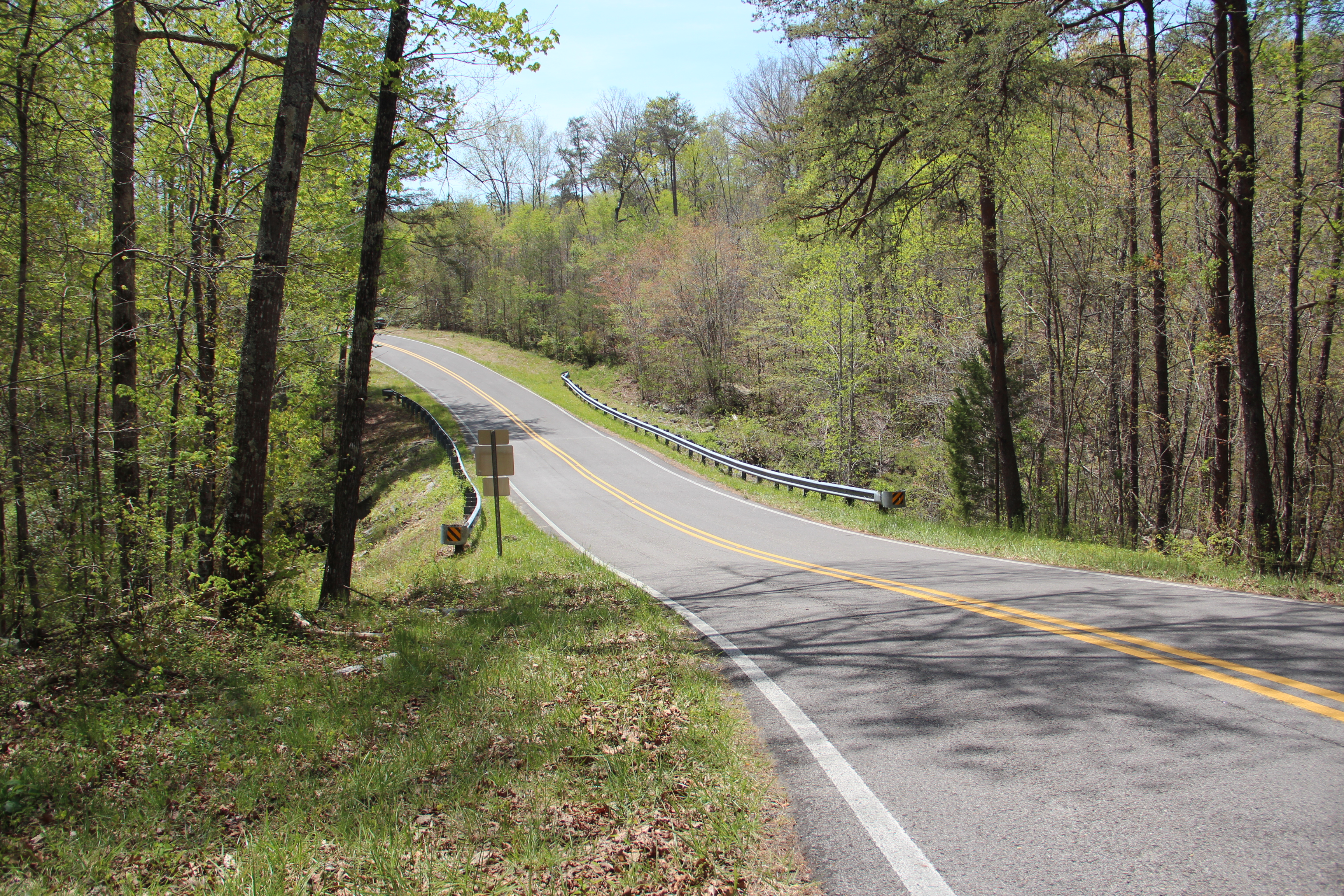 Little River Canyon Pkwy, Alabama